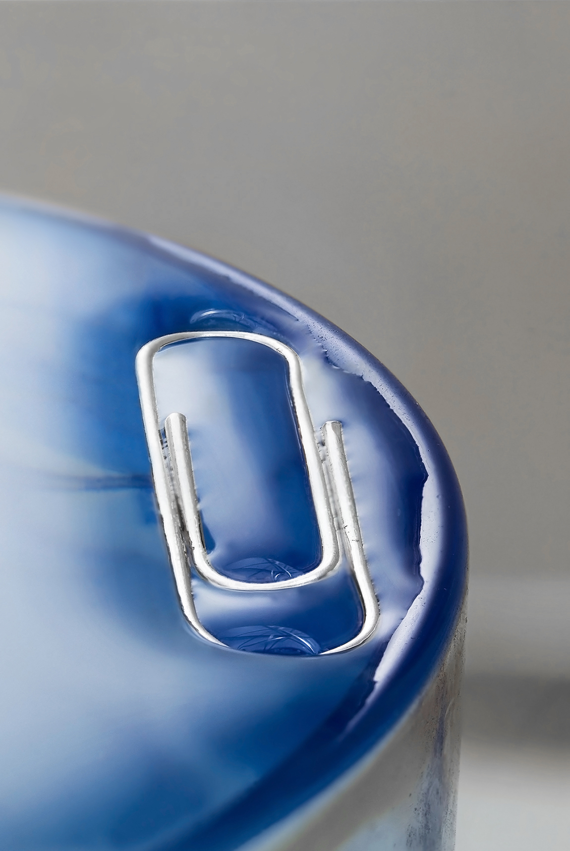 Demonstration of surface tension, a paper clip in a full, blue, glass.